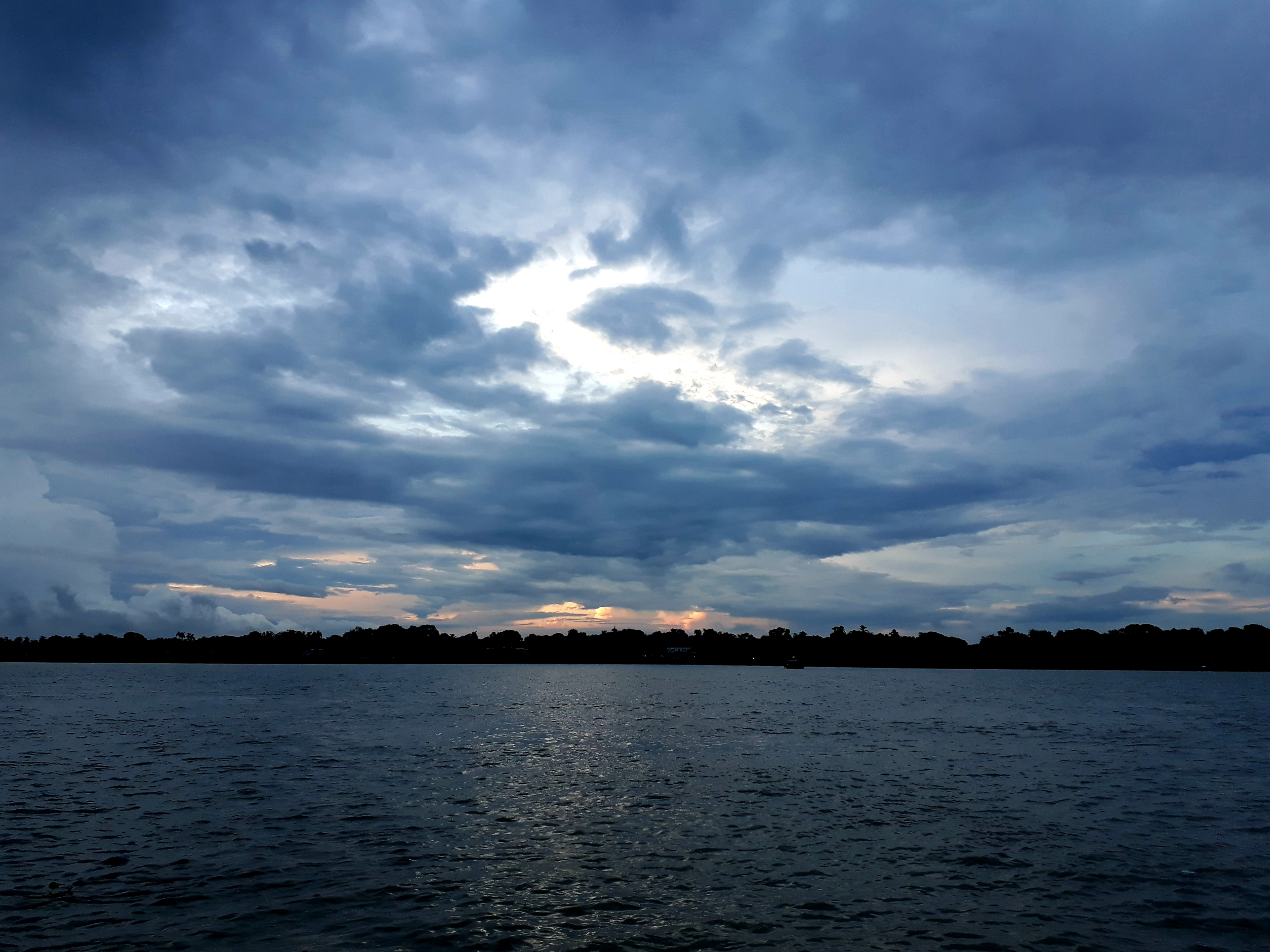 View of Hooghly River from Serampore